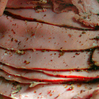 Summary A picture of Pastrami that I took in my kitchen. There is an open request for a picture of pastrami to go with an article, so I took the picture to help out. No rights reserved, I release all rights to this picture of Pastrami.